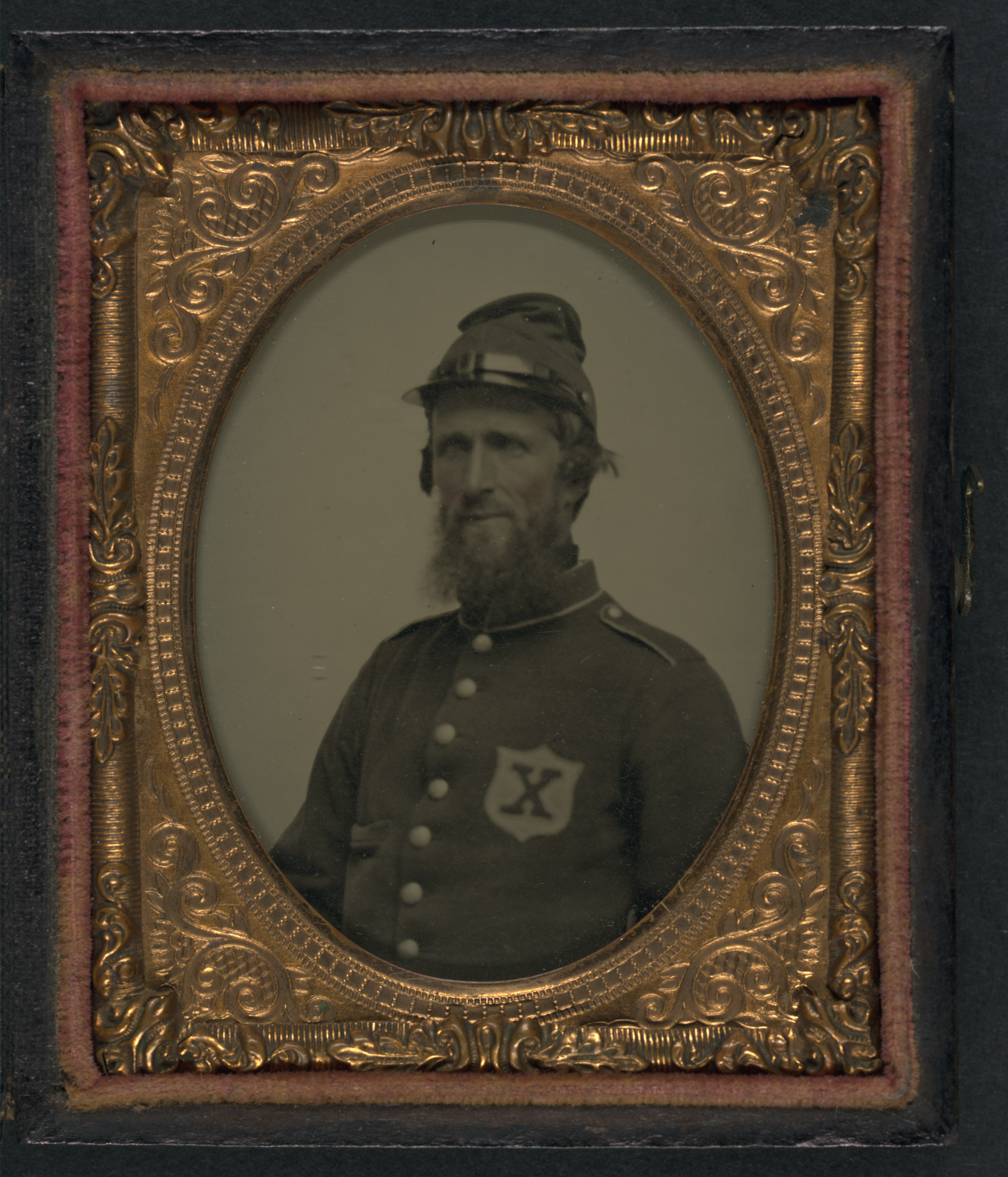 Title: Unidentified soldier in Union uniform of the 56th New York Volunteers (10th Legion) and forage cap; Grand Army of the Republic badge pinned to the velvet pad opposite photograph Abstract/medium: 1 photograph : ninth-plate ambrotype, hand-colored ; 7.3 x 6.2 cm (case)